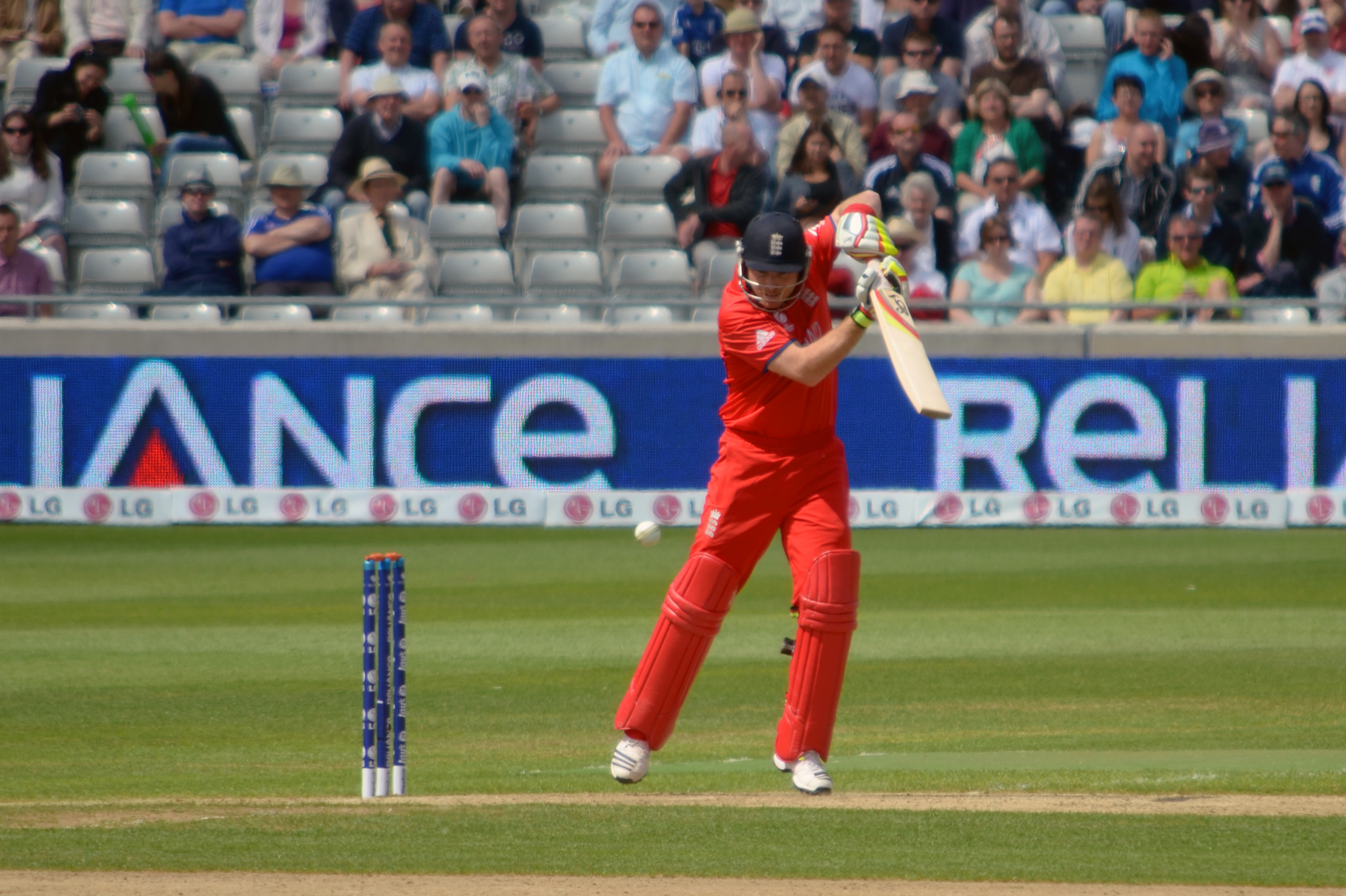 Ian Bell batting for England during their victory over Australia in the group stages of the 2013 ICC Champions Trophy at Edgbaston, Birmingham.